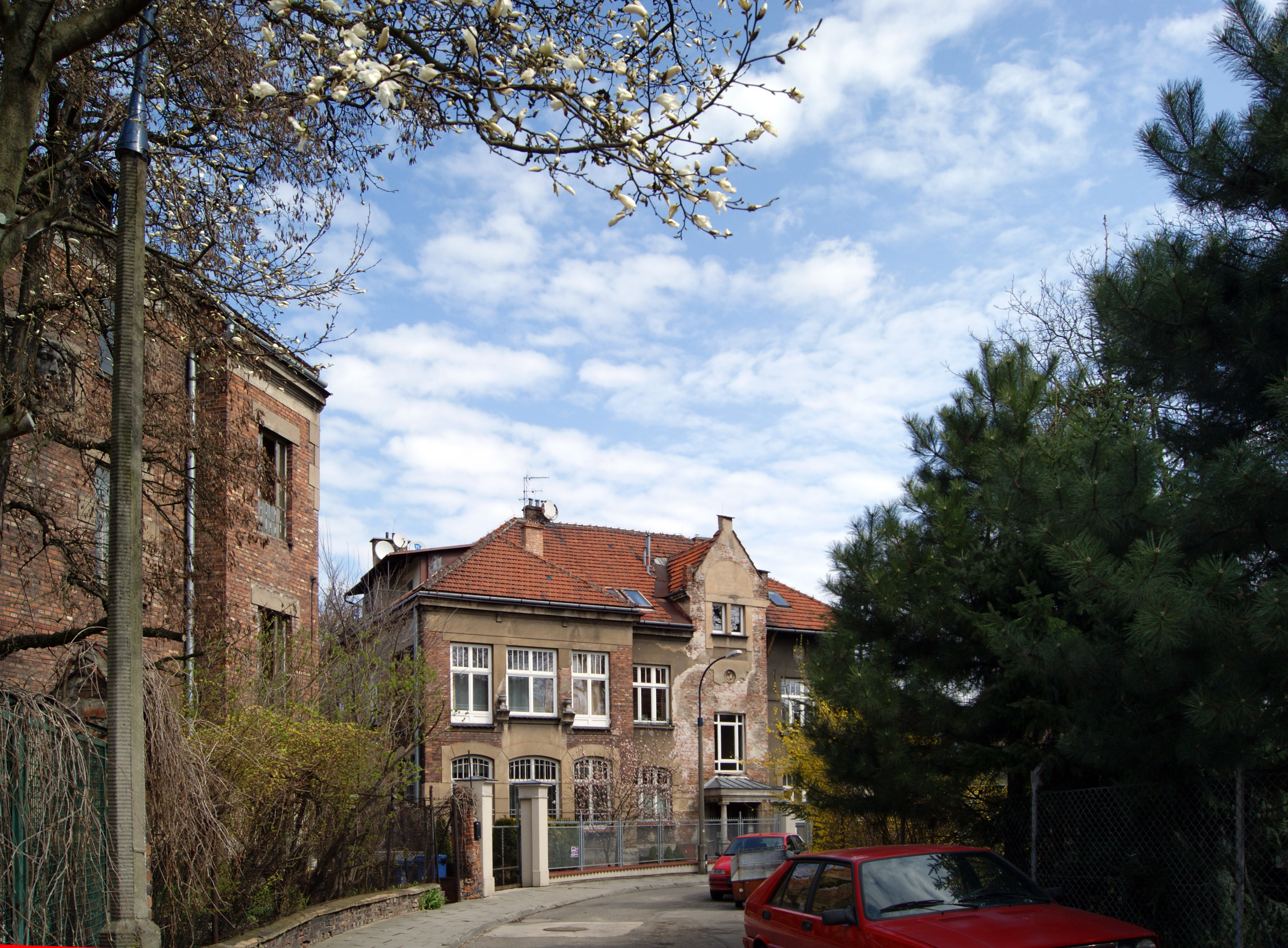 House, 7 Anczyca street, Salwator, Krakow, Poland